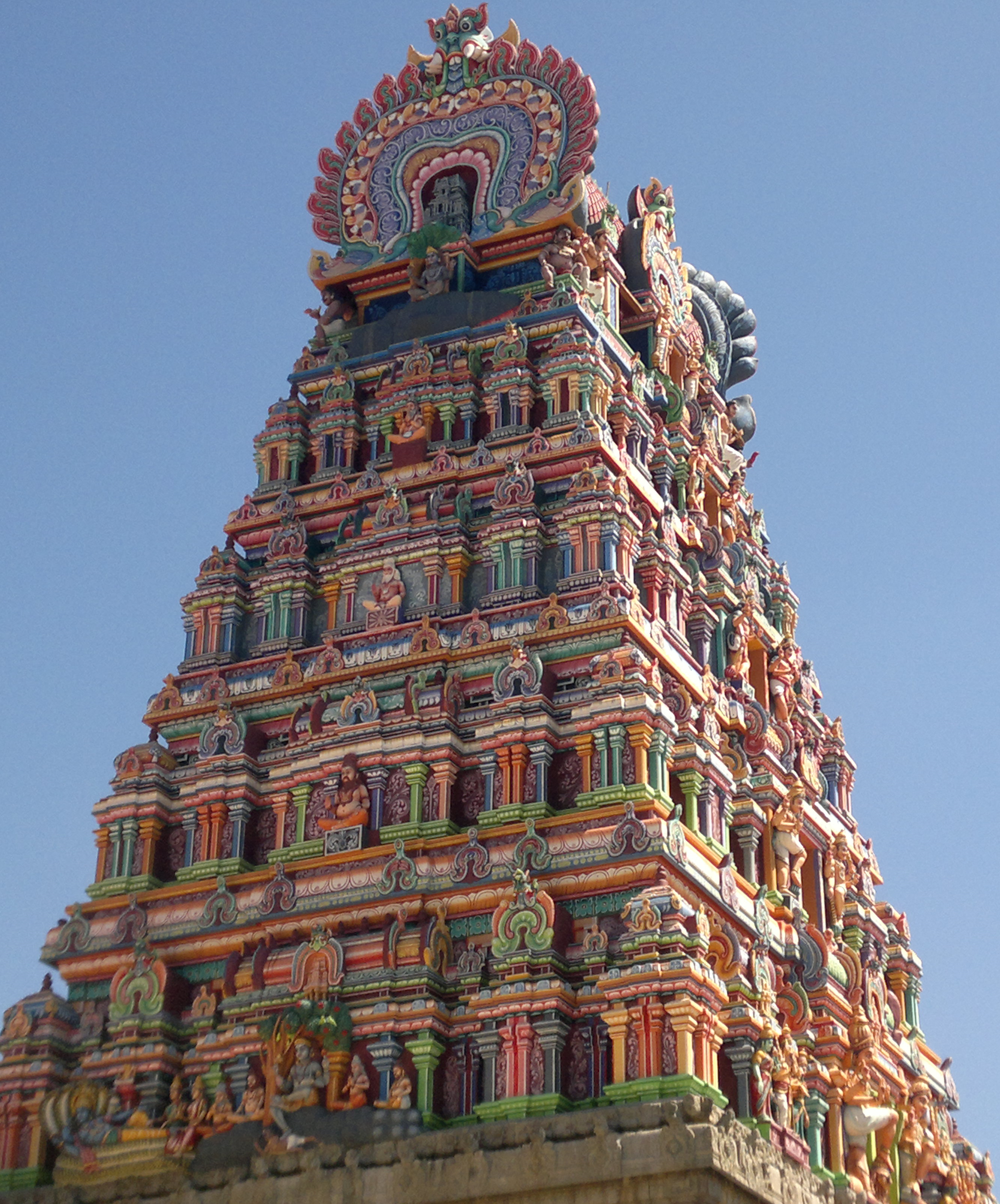 Monumental tower of Mailam Murugan Temple.